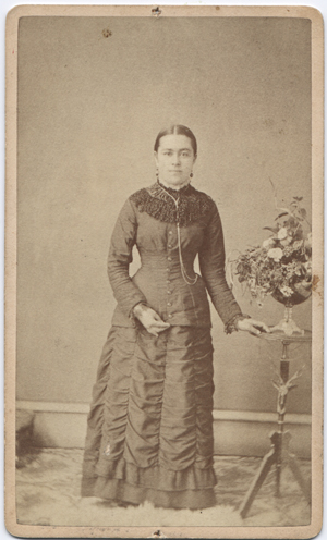 Odille Morison [ca. 1880] (Private Collection of H. Aldous)